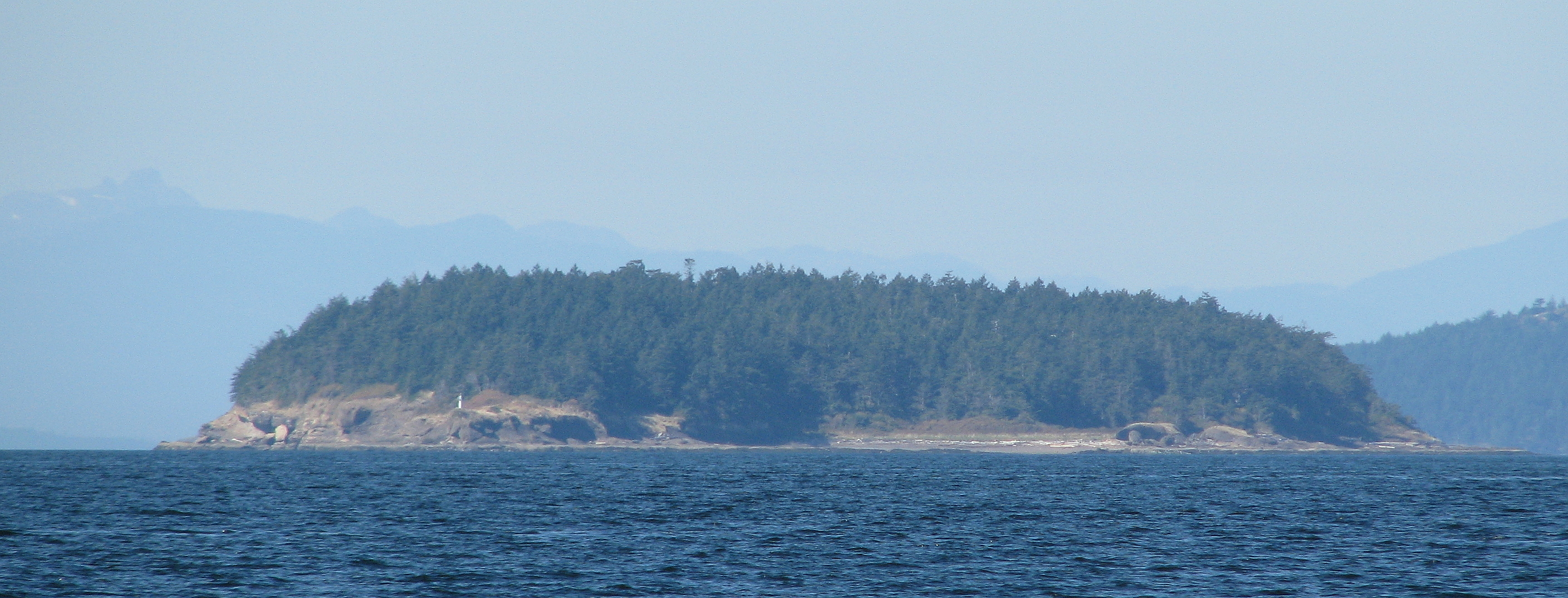 Sangster Island off the south west end of Lasqueti Island, north of Nanaimo, BC showing Sangster Island Sector Light (cylindrical white tower locally known as Elephant's Eye) at SW tip of island (49d 25m 25.3s N 124d 11m 34.9s W).